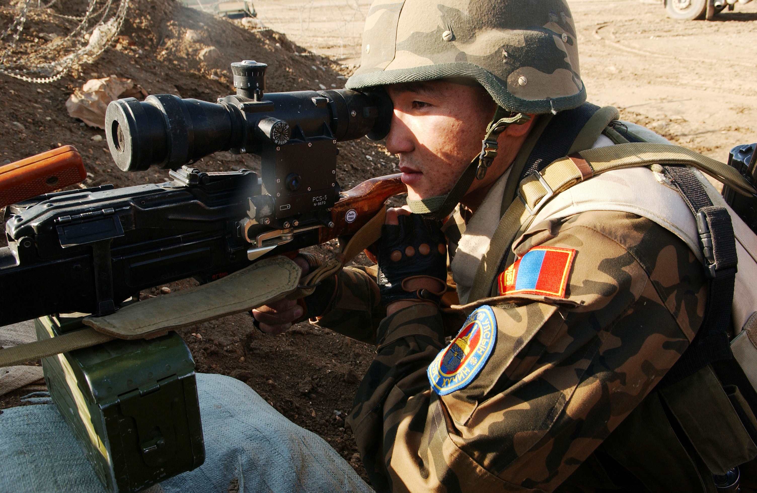 A Mongolian army soldier assigned to the Quick Reactionary Force scans the area with his machine gun in a bunker during a training day at the Mongolian contingency compound on Camp Echo, Iraq, December 8th, 2006.